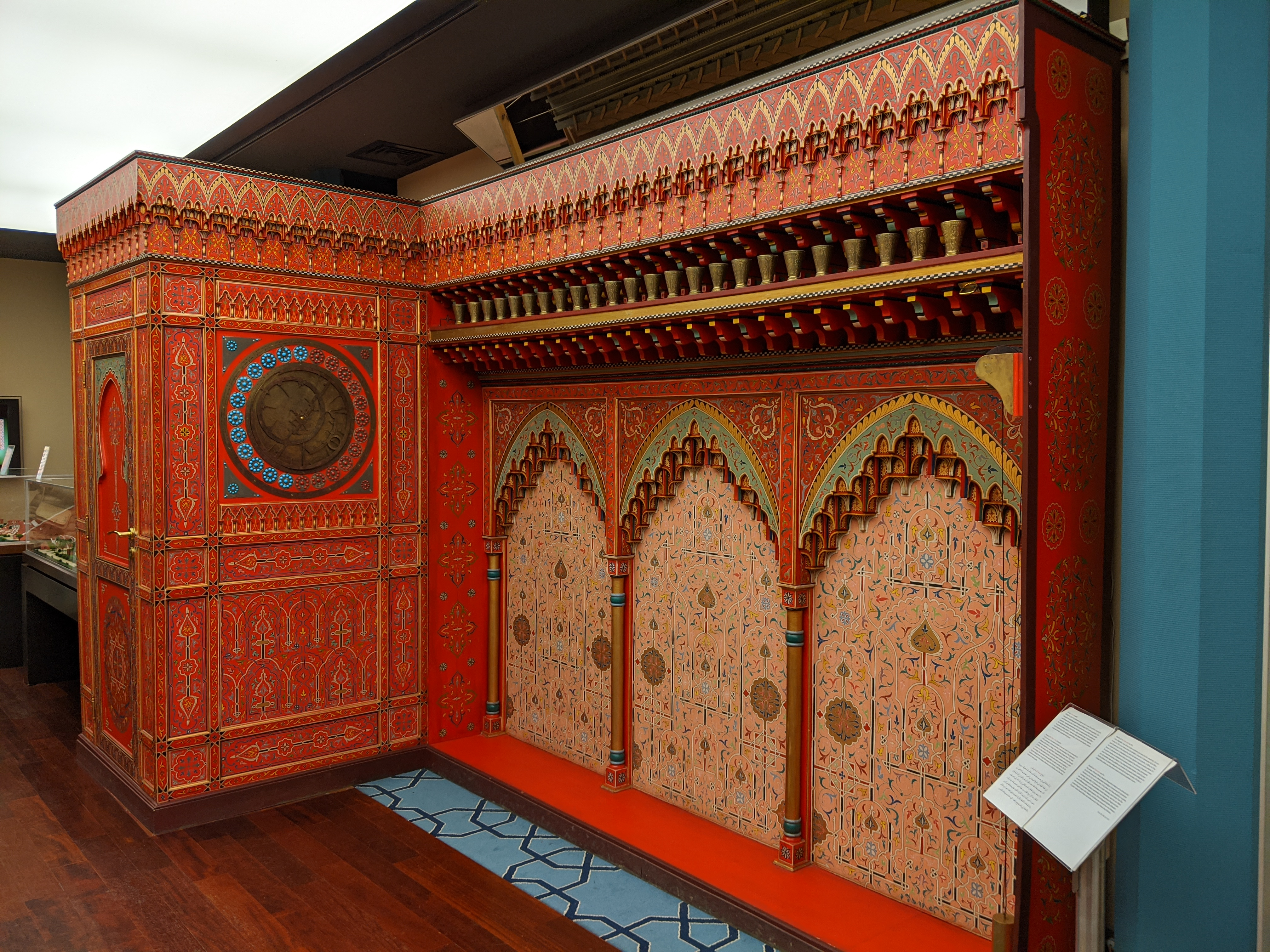 Model of the Fez Qarawiyyin waterclock. On display in the Istanbul Museum of History of Science and Technology in Islam.